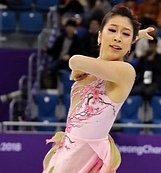 Photos – Olympics 2018 – Dance (MURAMOTO Kana REED Chris JPN – 15th Place)